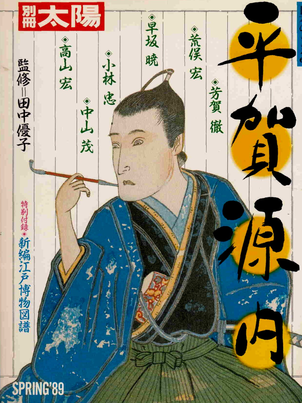 Hiraga Gennai journal cover